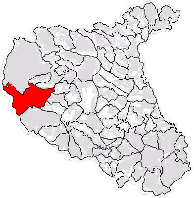 Map of limits of commune in Vrancea County